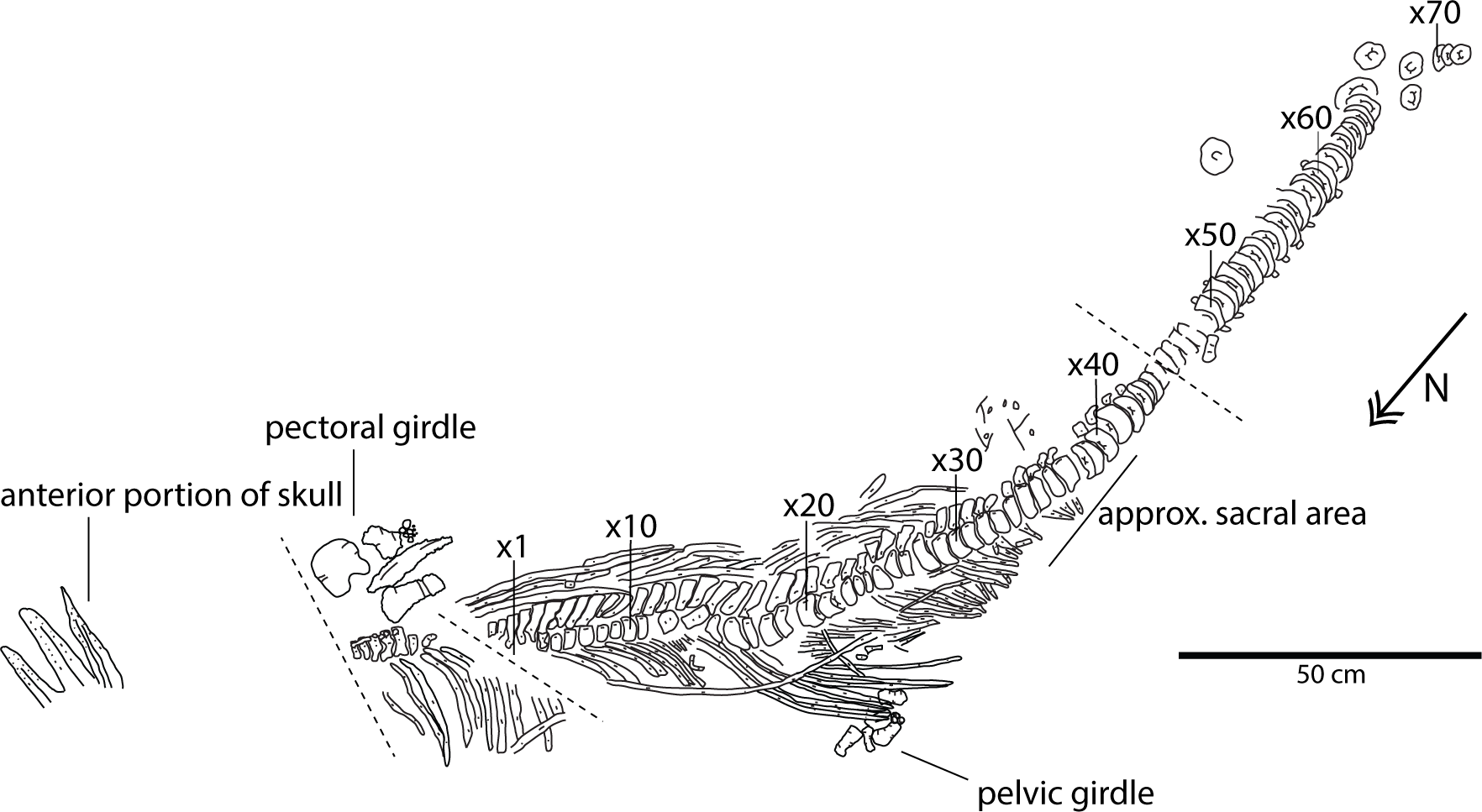 Fig 3. Skeletal map of Keilhauia nui (PMO 222.655) viewed from the side stratigraphically down, i.e. the prepared side. Vertebrae numbers (“x#”) indicate position relative to the anterior end of the preserved skeleton and do not correspond to their actual position in the column. Dashed lines show three faults. Scale bar equals 50 cm. Modified from Delsett et al. 2016.